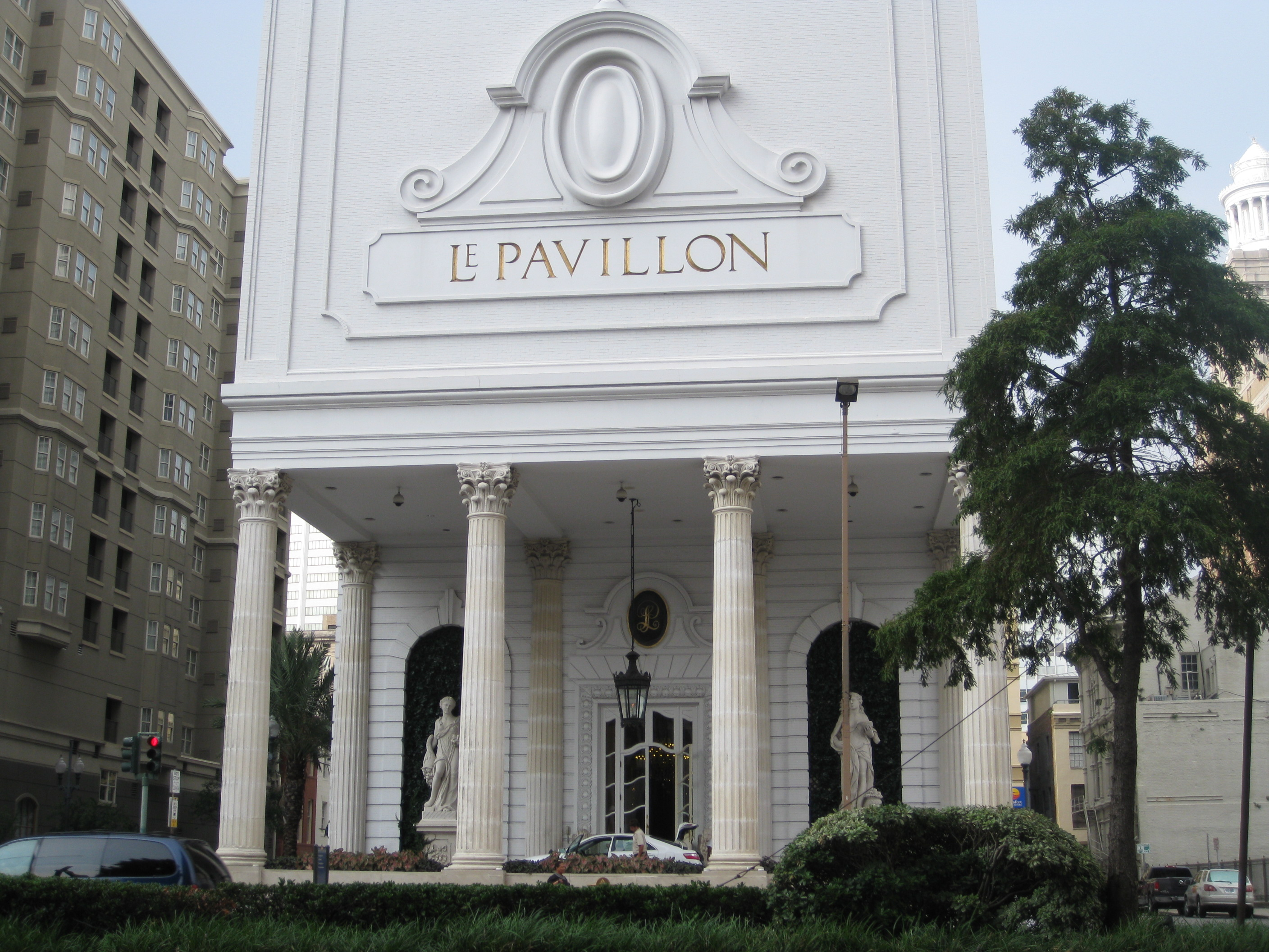 Le Pavillon Hotel in downtown New Orleans